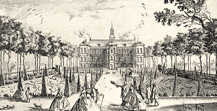 Jægerspris Castle in Denmark as it appeared in 1746 tousch drawing